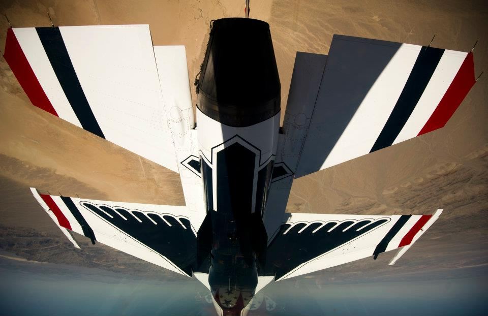 Lt. Col. Greg Moseley, Thunderbird 1, Commander/Leader, leads the six-ship Delta Formation in the Delta Loop during a practice show over the training range near Nellis Air Force Base, Nev., Apr. 9, 2012.